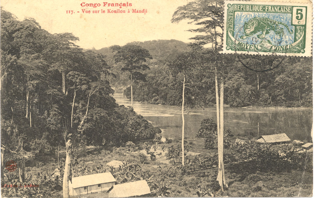 Congo Français [postcard] : Congo Français - Vue sur le Konilou a Mandji French Congo / View of the Konilou River at Mandji (Lastoursville) Contained in: Postcard Collection, 1898-[ongoing] Produced: [ca. 1905] Physical_Description: postcard : b&w ; 9 x 14 cm. Local_Number: EEPA 1985-140021 Archival_Repository: Eliot Elisofon Photographic Archives